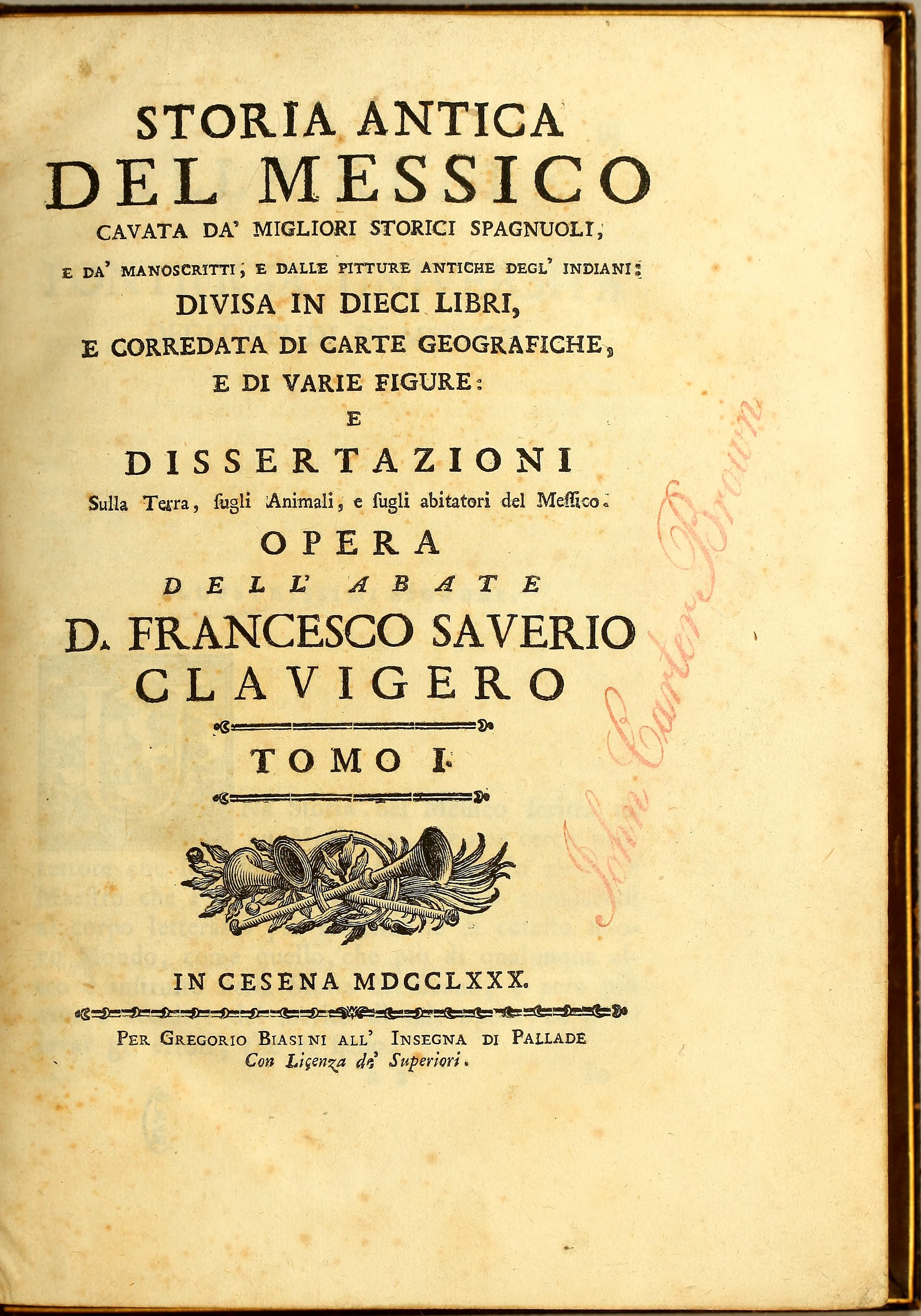 Title page of 1750 Italian edition of Storia antica del Messico by Francisco Javier Clavijero